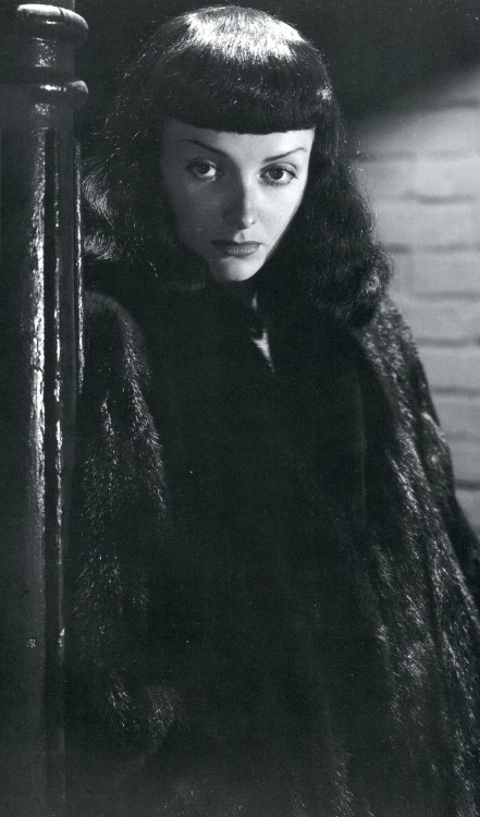 Actress Jean Brooks in a promotional photo for The Seventh Victim.